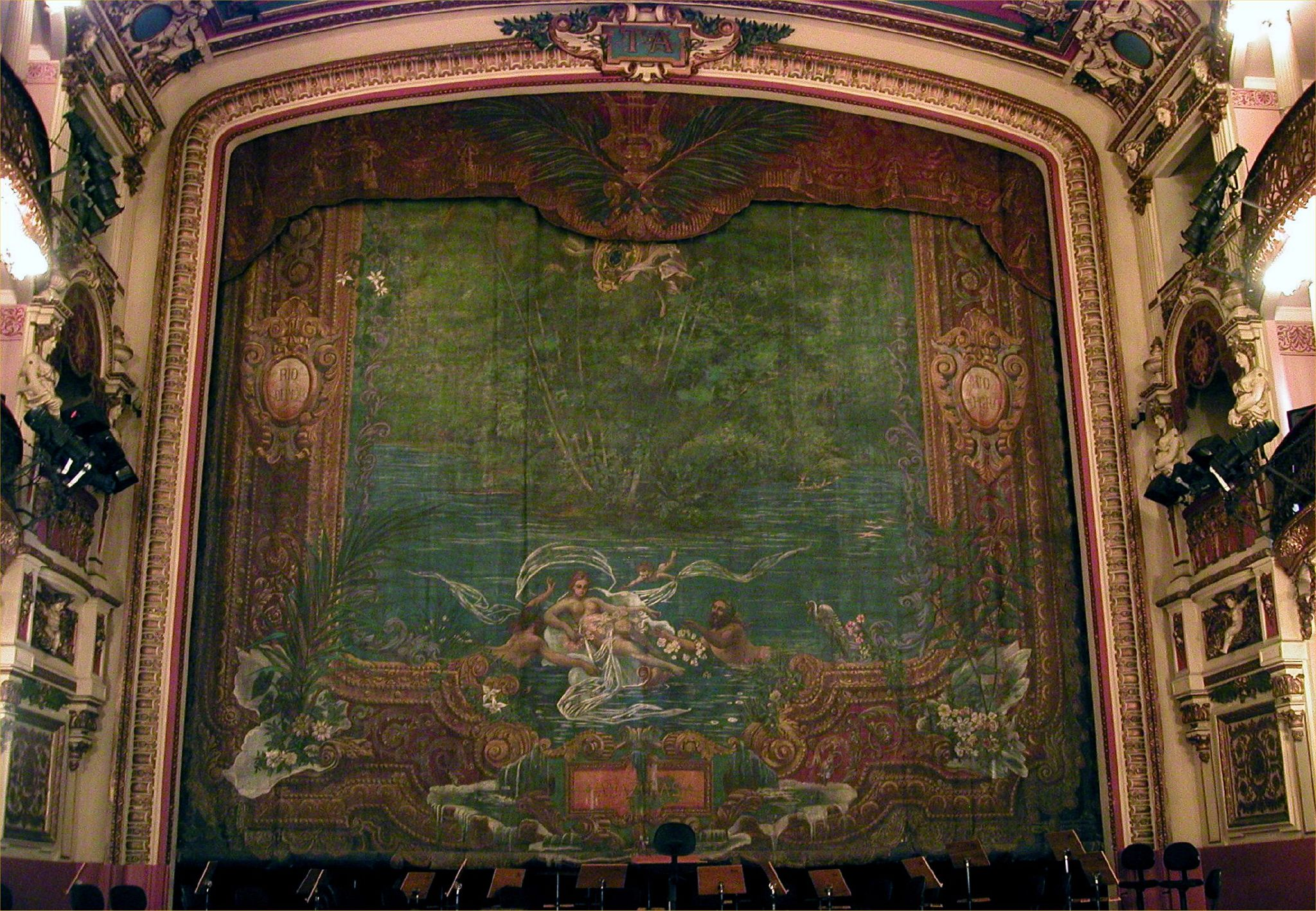 Amazon Opera House, Brazil. The stage curtain projects the painting "Meeting of the Waters"; originally done in Paris by Crispim do Amaral. This curtain rises vertically so as not to damage the painting.